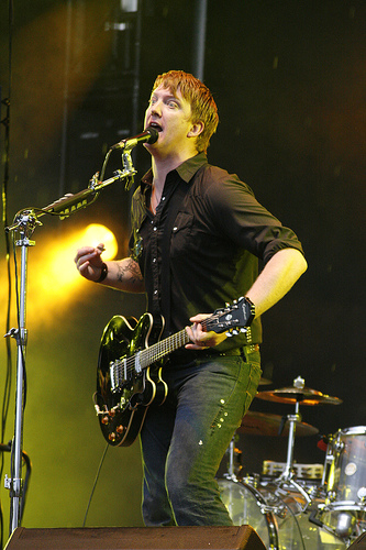 Queen of the Stone Age - Joshua Homme